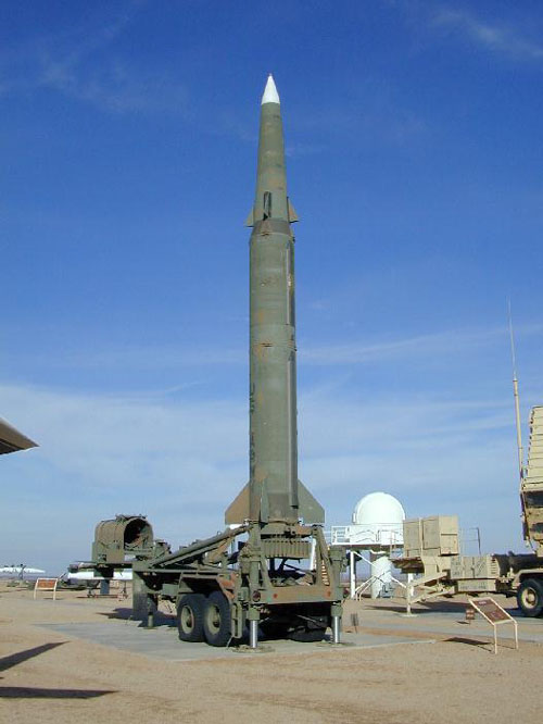 The Pershing II missile. From the source: This two-stage, surface-to-surface missile is sometimes credited with helping to win the Cold War. It was so accurate it was capable of being fired from Boise, Idaho and hitting an area the size of this missile display. The maneuvering warhead guided itself to the target by making radar images of the terrain below and comparing them with stored terrain maps of the target area. Deployment was stopped by the INF Treaty.